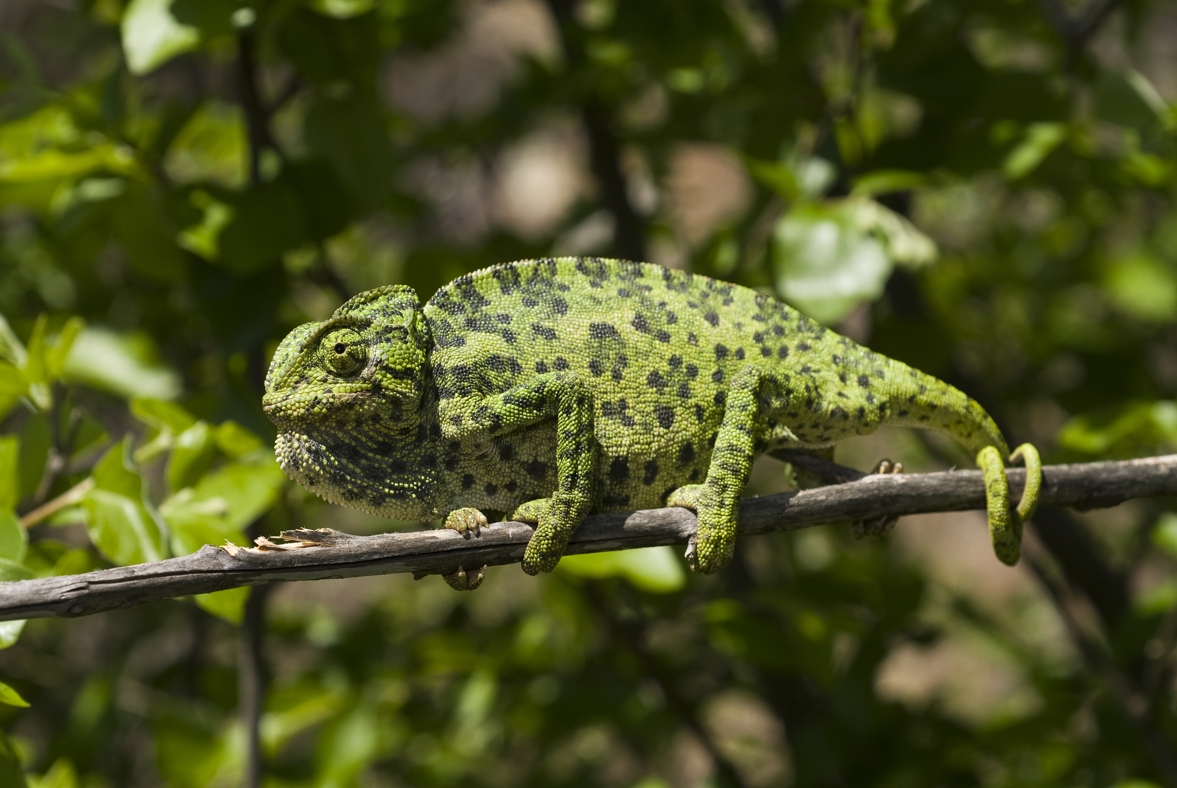 Chamaeleo chamaeleon of Samos